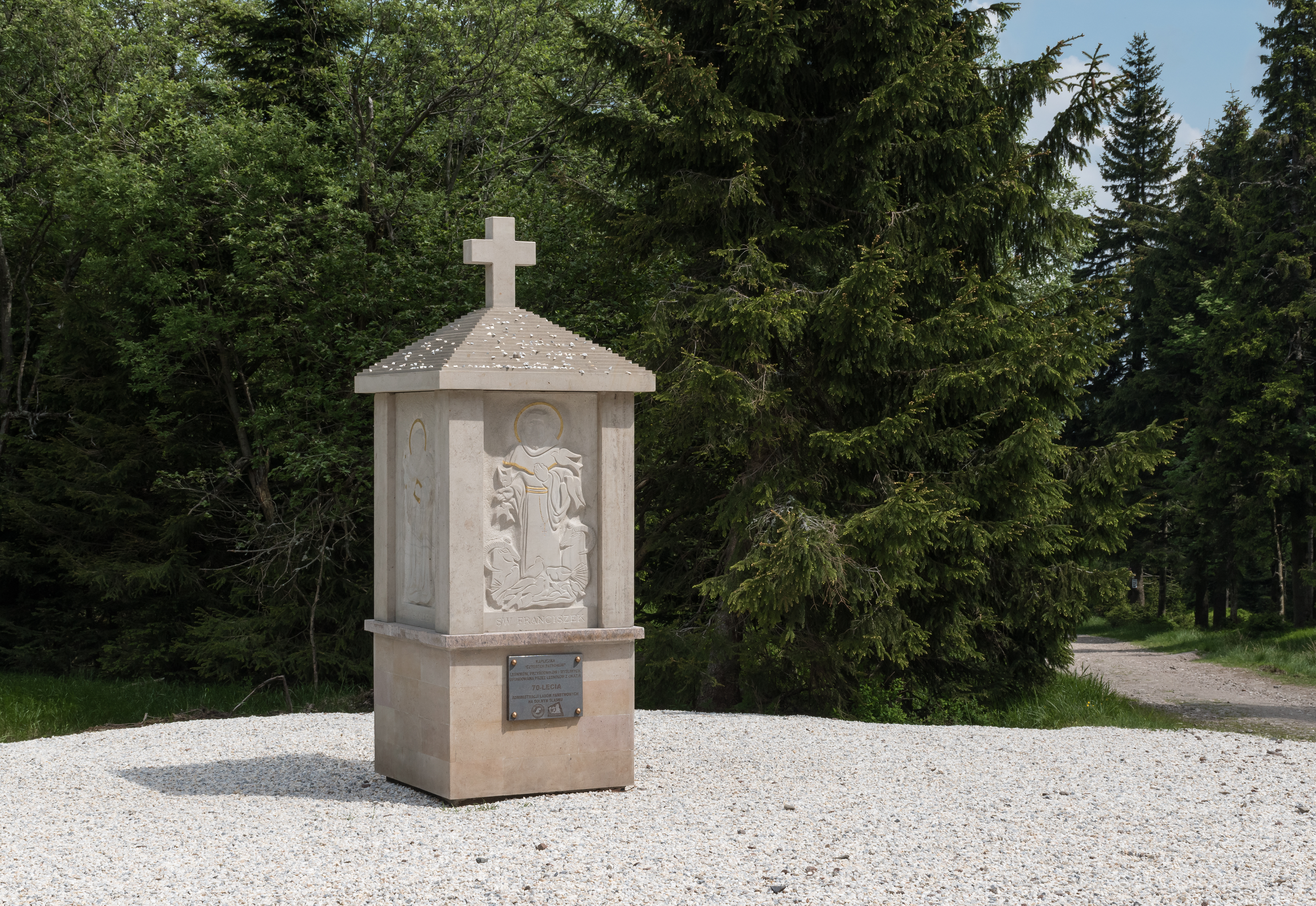 Chapel of Four Patrons on the Śnieżnicka Pass